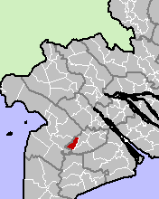 Vi Thanh District, Hau Giang Province, Vietnam.